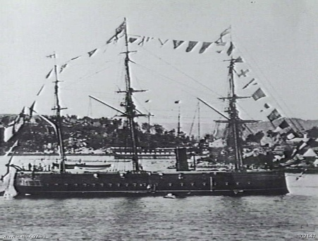 AWM caption : "SYDNEY, NSW. C.1869. STARBOARD SIDE VIEW OF THE SCREW CORVETTE HMS BLANCHE DRESSED OVERALL. "